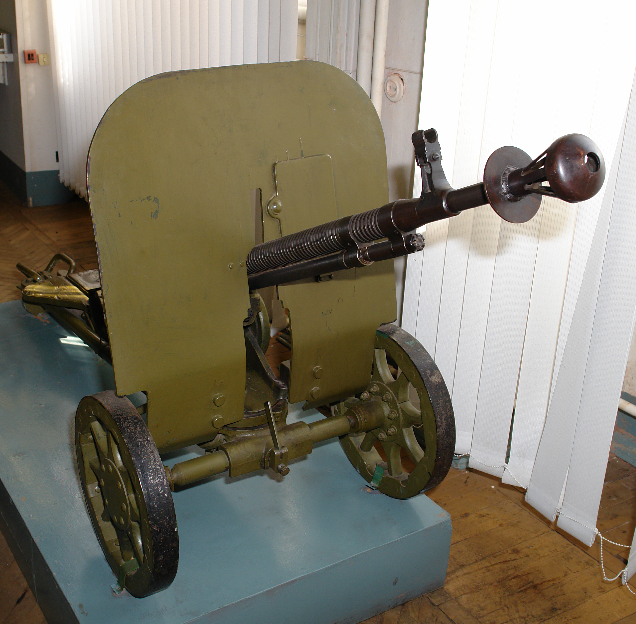 12.7 mm heavy machine gun DShK model of 1938. Military-Historical Museum of Artillery, Engineers and Signal Corps, Saint Petersburg, Russia.This particualer weapon belonged to the Hero of the Soviet Union sergeant M.I. Kozomazov. On August 8, 1944 in a battle near Auvere railway station (Estonian SSR) during the Battle of Tannenberg Line anti-aircraft machine-gun platoon sergeant M.I. Kozomazov replaced his killed-in-combat machine-gun company commander. Under his command, the company repulsed 8 counterattacks with fire of their machine guns. Personally, firing from machine guns and throwing grenades, M.I. Kozomazov knocked out two Tankettes, and in the ensuing melee killeed two Nazi soldiers. Despite receiving a severe wound, he continued to lead the fight until the arrival of reinforcements. An important milestone has been withheld.